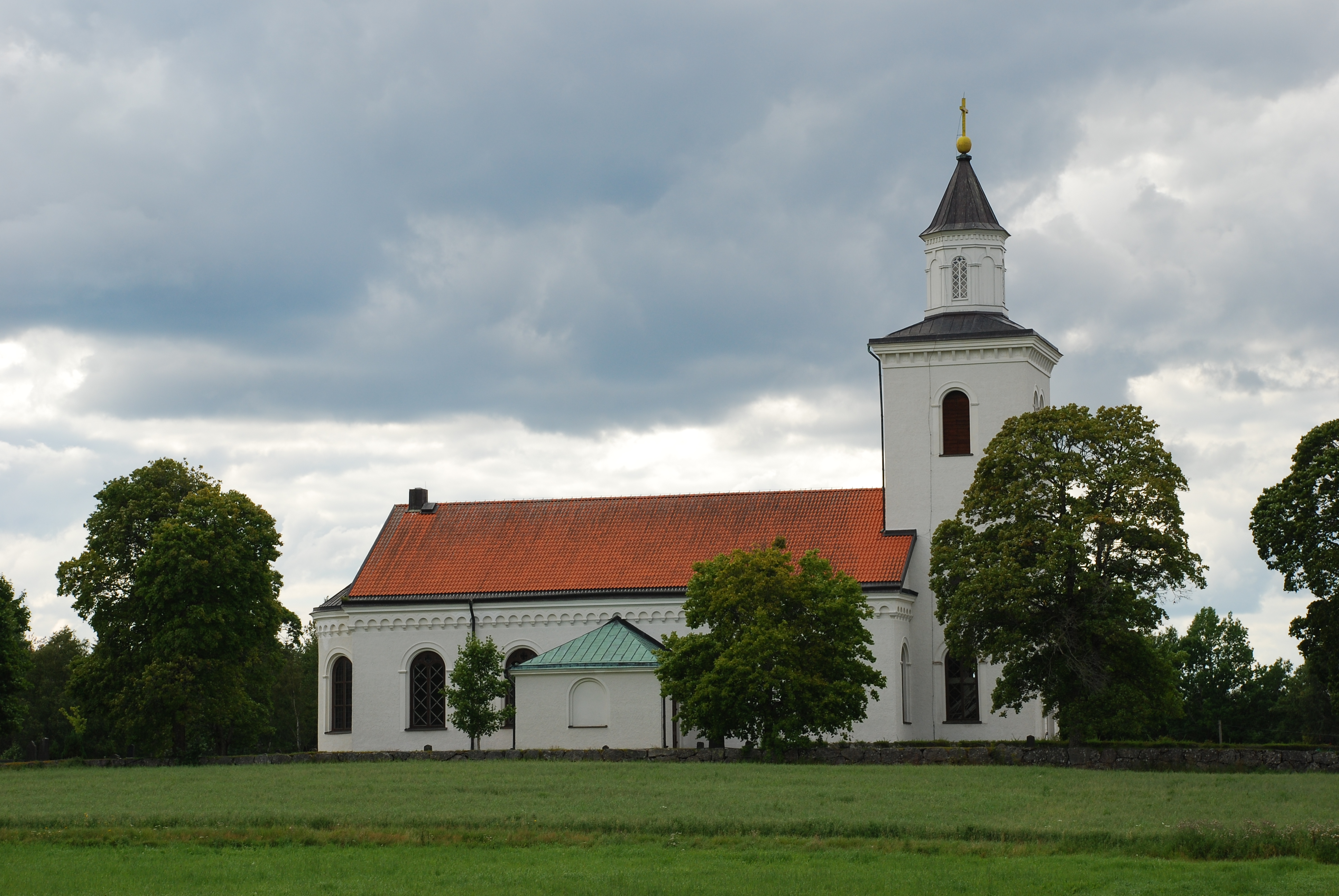 Drev-Hornaryd ChurchThe church common to Trains and Hornaryd congregations and erected in 1866-67. The drawings are made by the architect Theodor Anckarsvärd, Vaxjo. All Saints' Day in 1868 the church was consecrated by Bishop Henry Gustav Hultman.